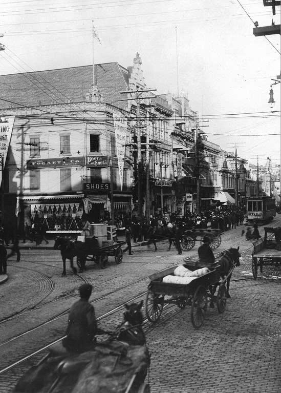 Photograph, St. Lawrence Main and St. Catherine Street, Montreal, about 1905, Anonymous, Silver salts on paper mounted on paper - Gelatin silver process - 20 x 25 cm